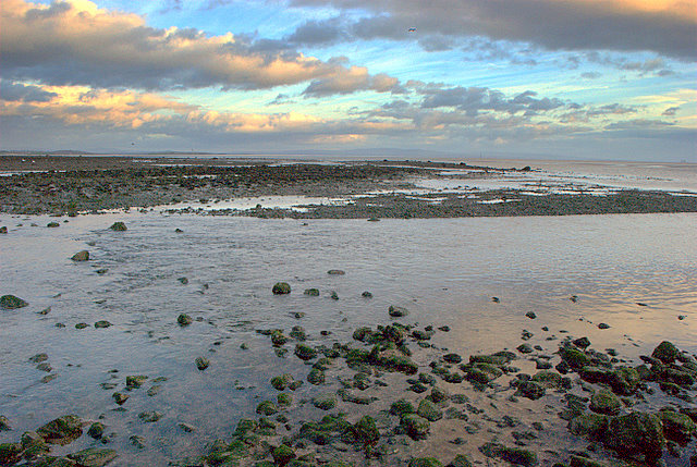 Cowp Scar Mussel Bed near to Bardsea, Cumbria, Great Britain. This area of low lying rock sticks out into the Leven Estuary, surrounded on 3 sides by extensive mud flats. There was no evidence that mussels were still collected from this area. The picture was taken about 3 hours after high tide.